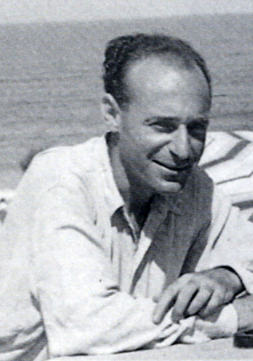 Arie Aroch 1942